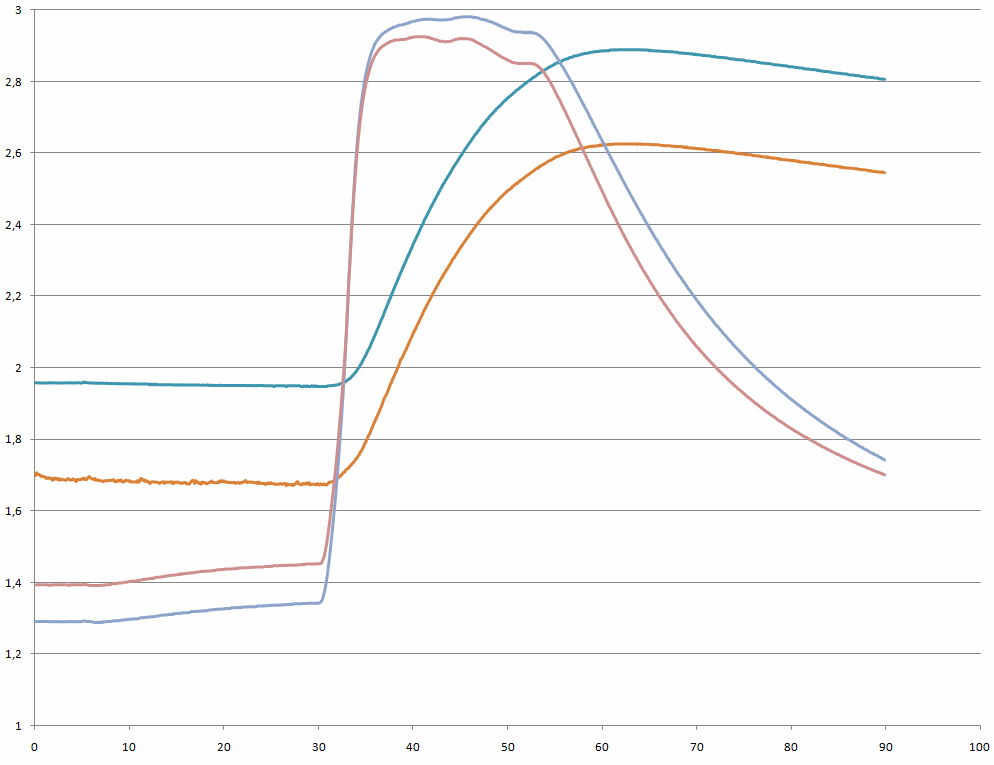 Signals from a few of the sensors in the electronic nose. The vertical scale shows the output in volts while the horizontal scale is the time in seconds. Different sensors show different maximum values, rise times, etc and these are used to identify the "sniffed" substance using sensor fusion techniques.